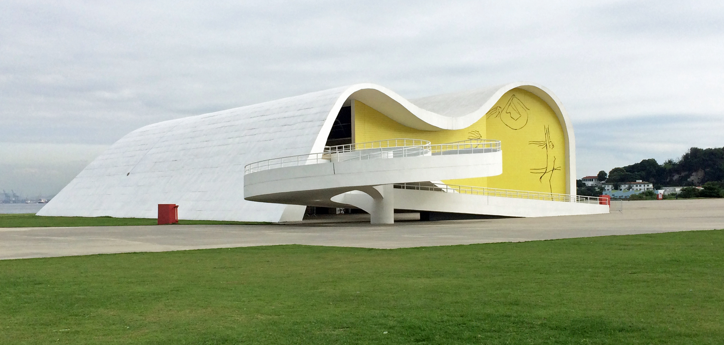 Teatro Popular de Niterói, Caminho Niemeyer, Rio de Janeiro state, Brazil